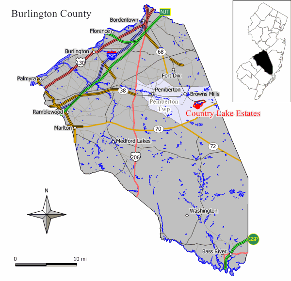 Source: Jim Irwin Original work by Jim Irwin, December 2005.